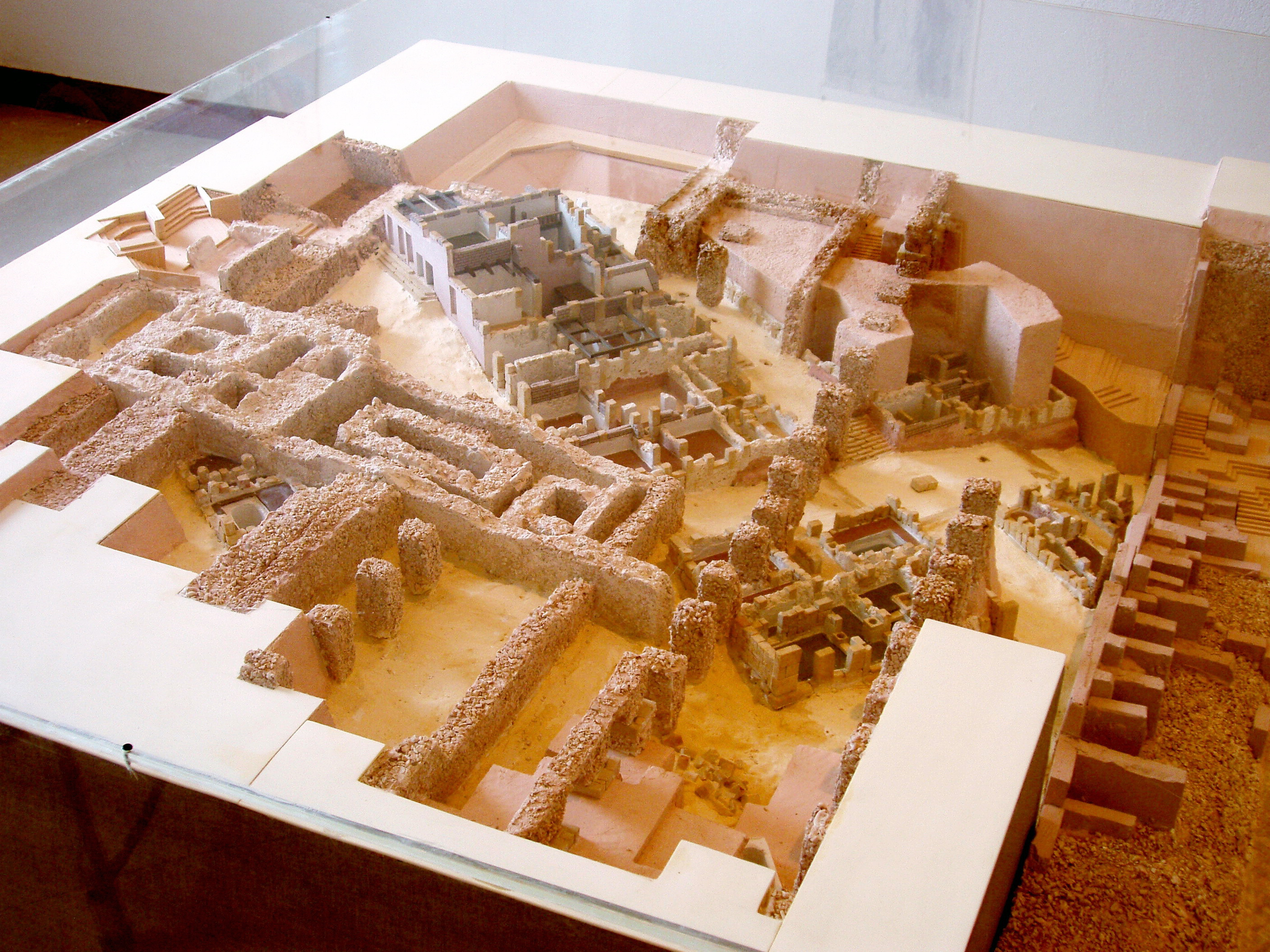 Punic and roman ruins shown at the Carthage National Museum